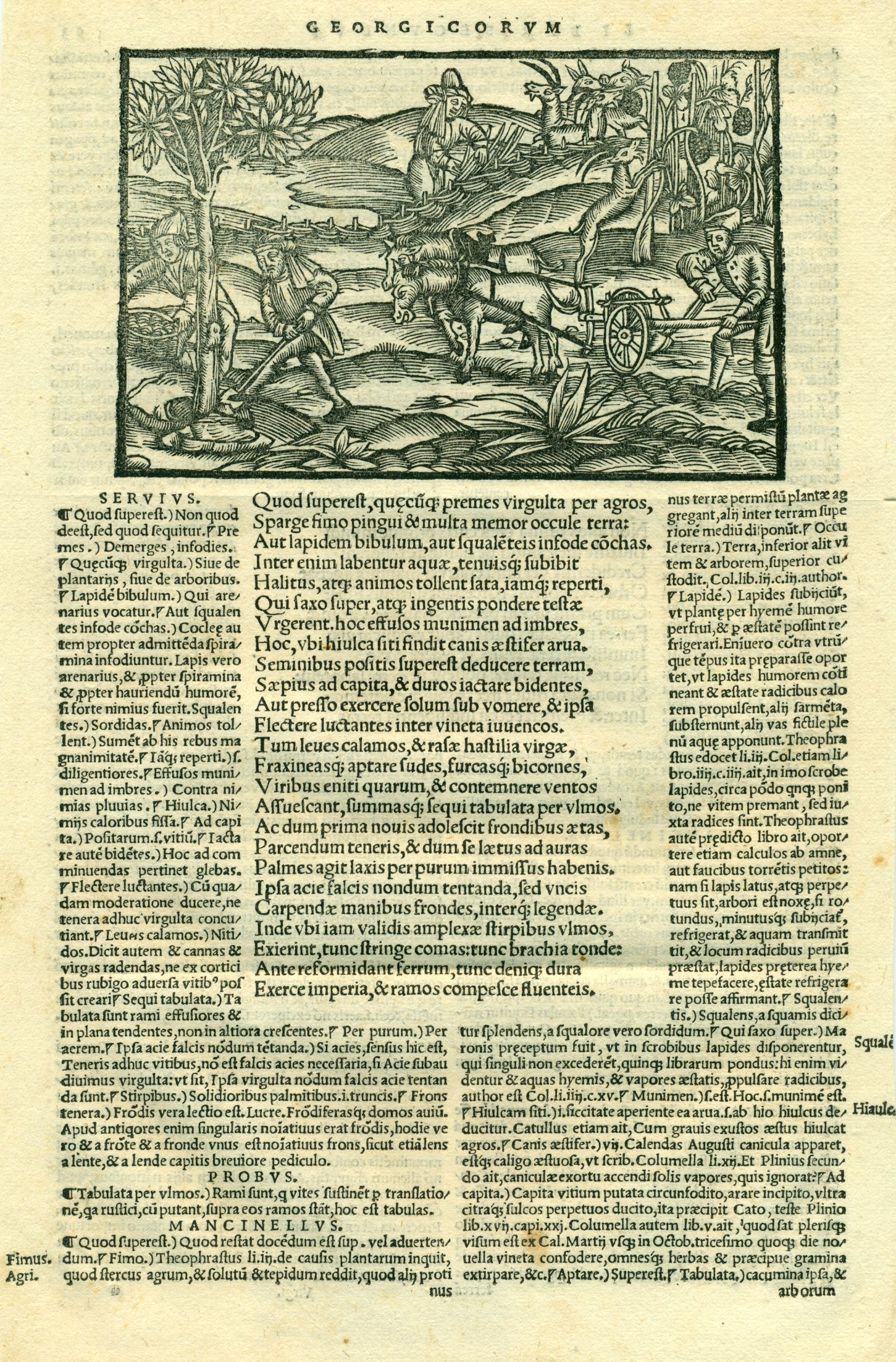 Anonymous woodcut from Bucolica, Georgica, et Aeneis, Servii Mauri Honorati & Aelii Donati commentariis illustrata, printed by Hieronymus Curio in Basel 1544